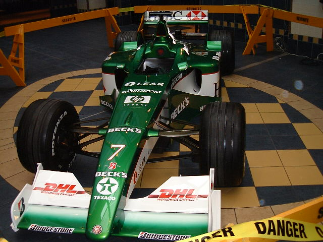 Front view of Eddie Irvine's Jaguar R1 at 2000 Canadian Grand Prix